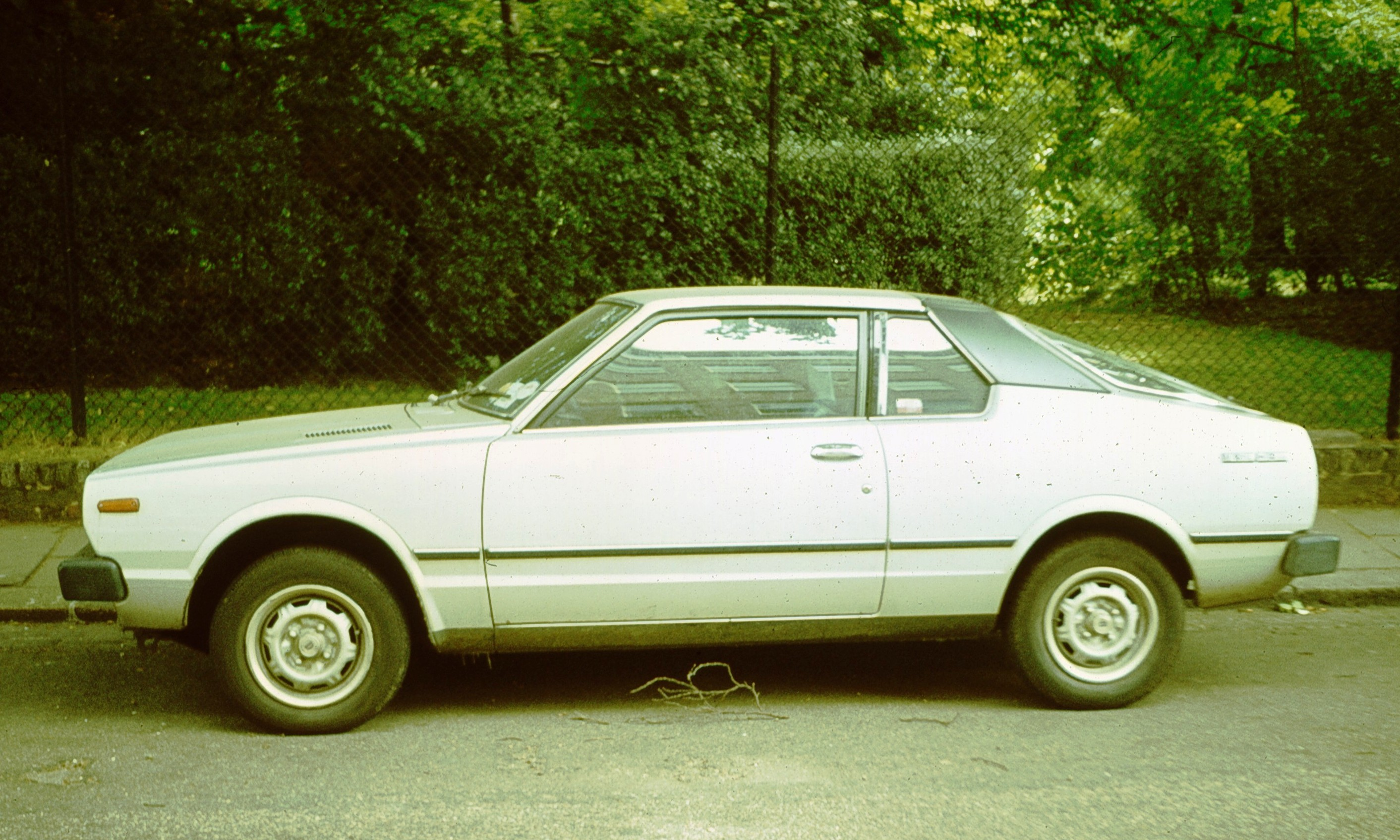 Nissan Cherry N10 Coupe in profile